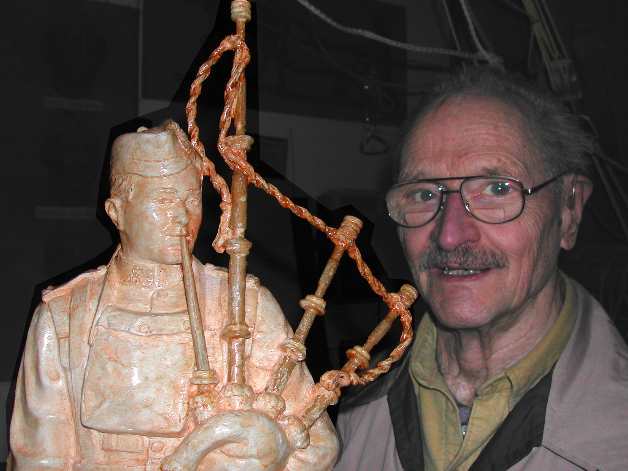 John Weaver with his miniature statue model of Piper Richardson.